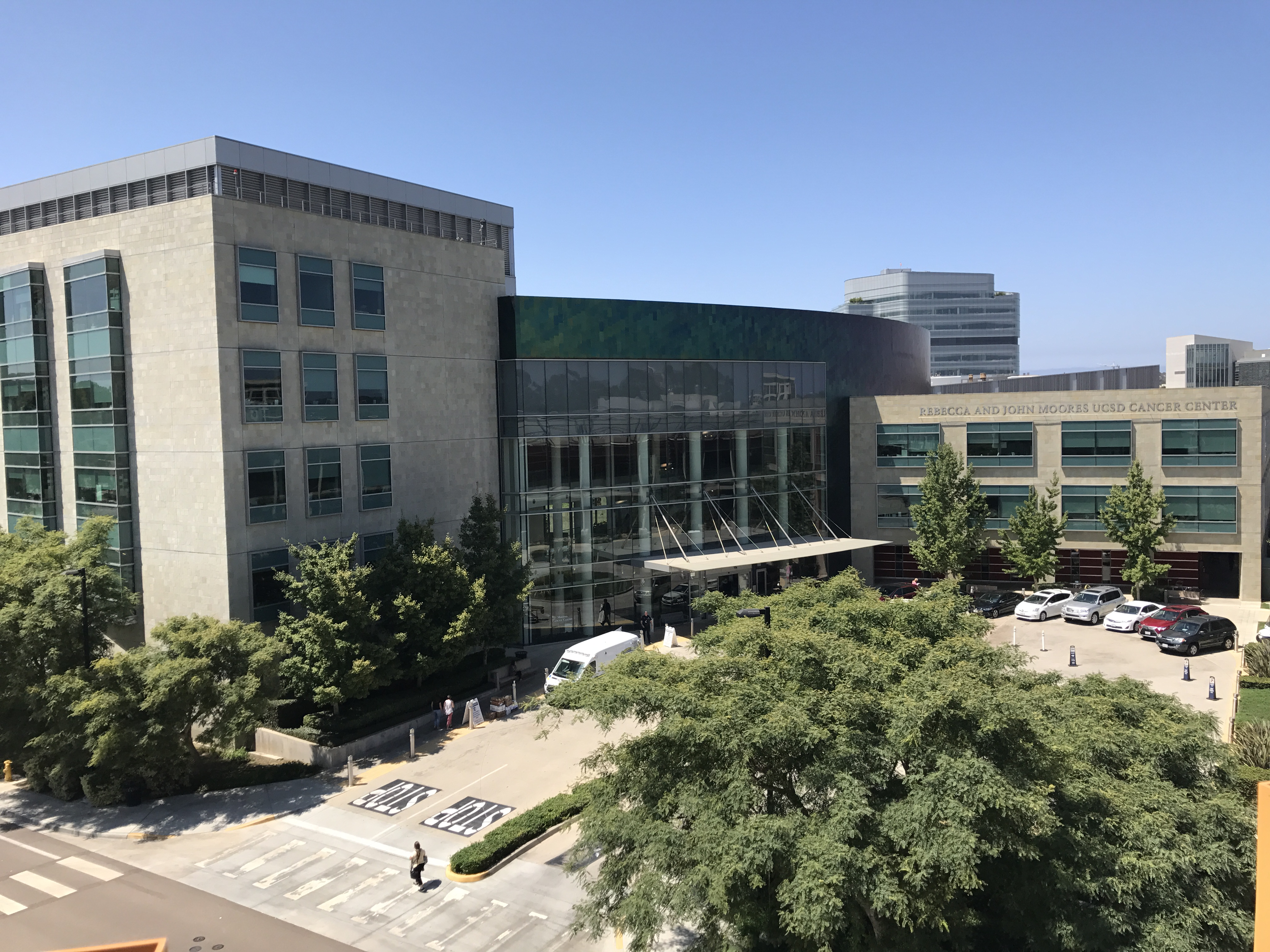 The Rebecca and John Moores Cancer Center, part of the UC San Diego Health La Jolla campus in La Jolla, San Diego